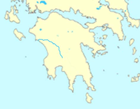 Map of Peloponisos depicting Alfeios river